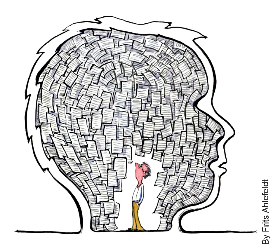 Drawing of a Homunculus kind of guy inside a head, looking at papers. Illustration by Frits Ahlefeldt